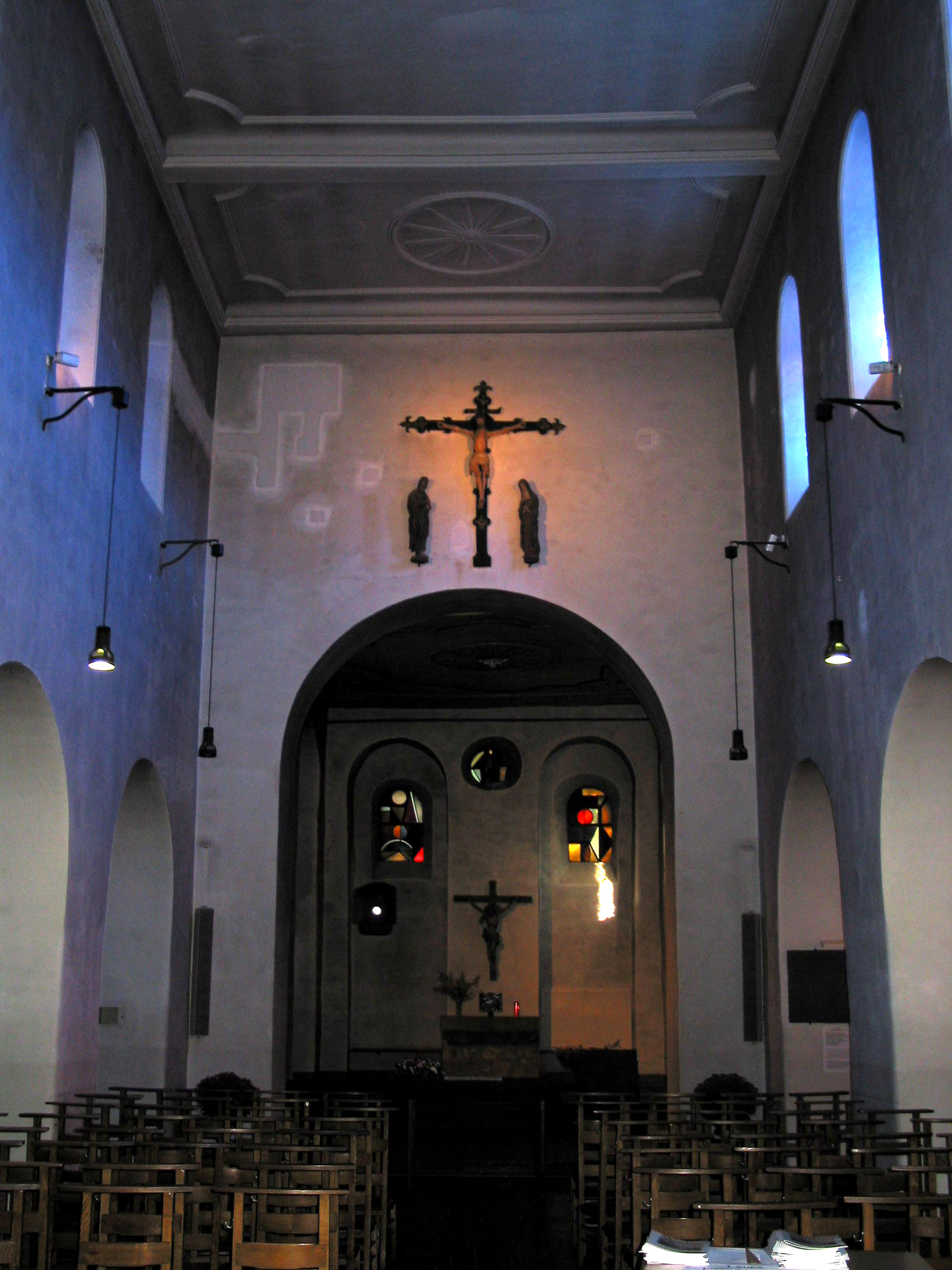 Waha (Belgium), nave and choir of St. Stephen's church (1050).